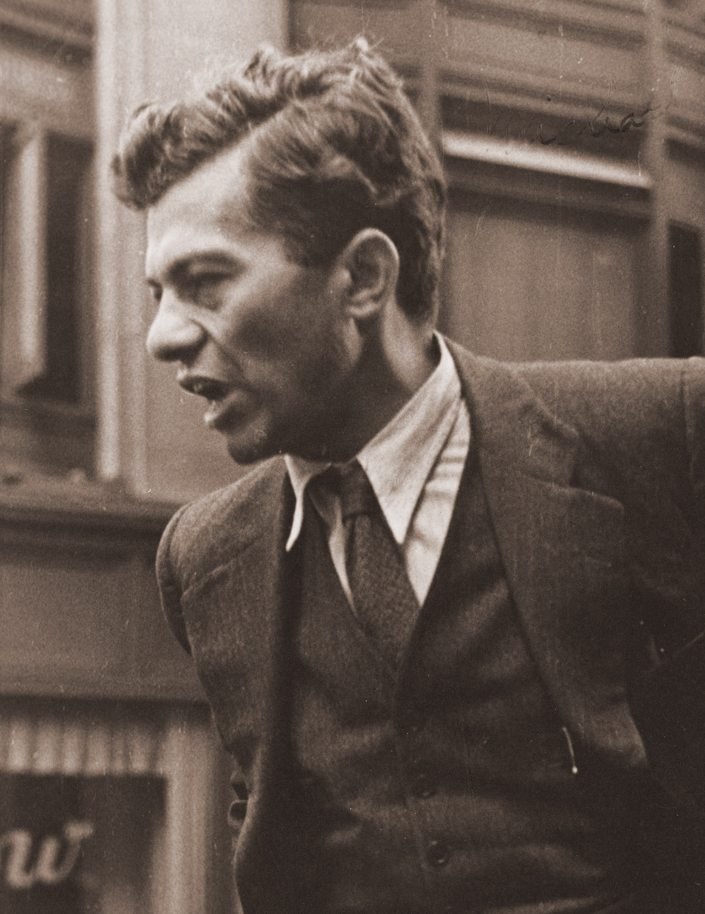 Mike Gold (1893-1967), American novelist and radical political activist